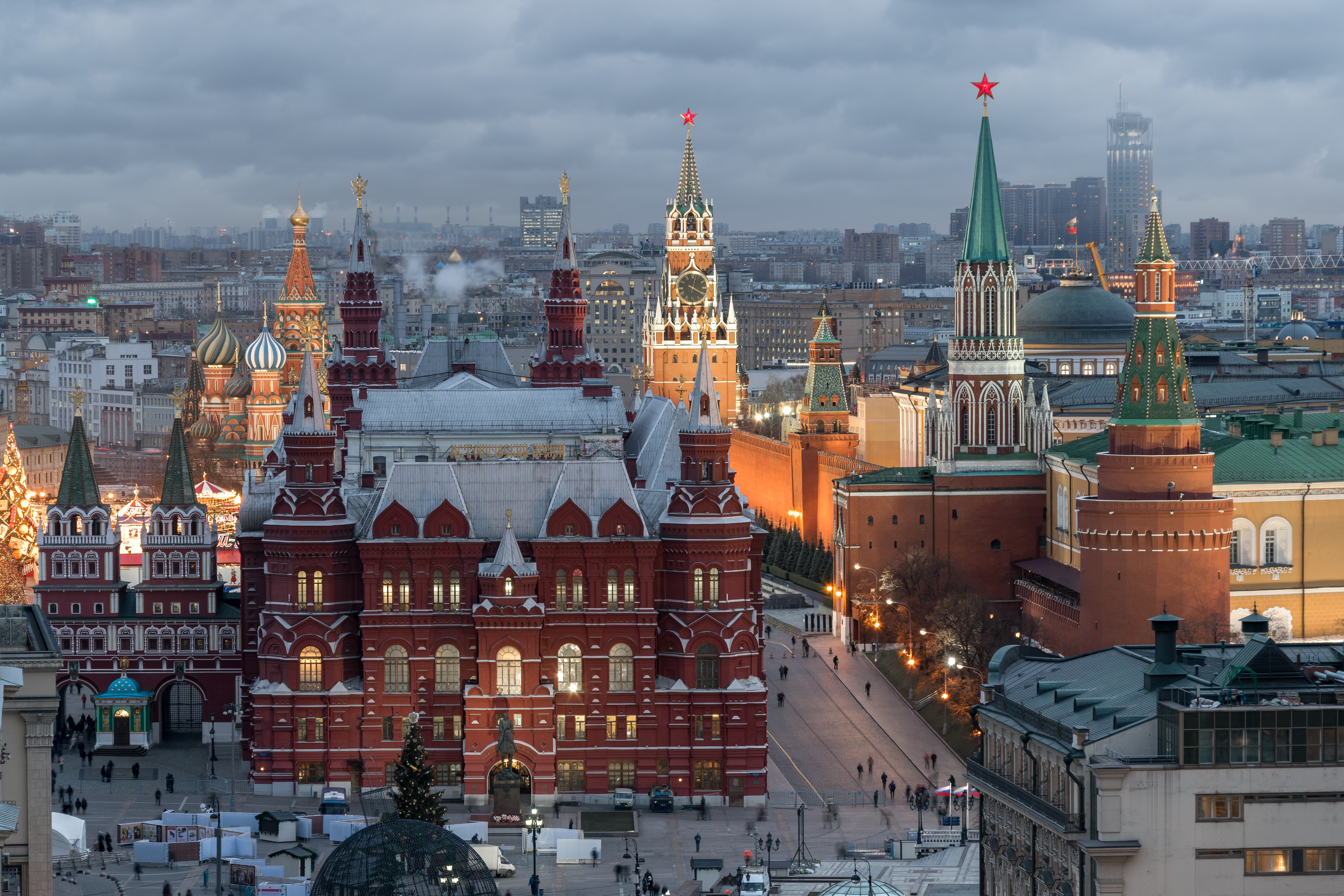 View of the State Historical Museum in front of the Red Square. Moscow, Russia.